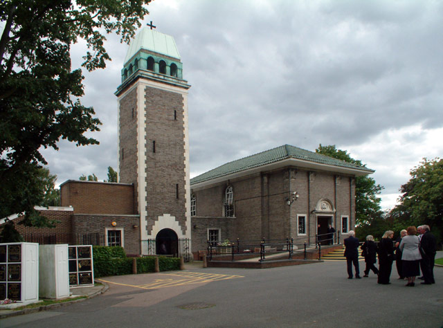 Honor Oak Crematorium SE23. The crematorium is in Camberwell New Cemetery and is notable for its beautiful stained glass window. The building was designed by Aston Webb and completed in 1939.